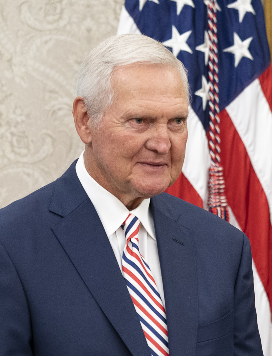 President Donald J. Trump delivers remarks prior to awarding the Presidential Medal of Freedom, the nation’s highest civilian honor, to Hall of Fame Los Angeles Lakers basketball star and legendary NBA General Manager Jerry West Thursday, Sept. 5, 2019, in the Oval Office of the White House. (Official White House Photo by Shealah Craighead)